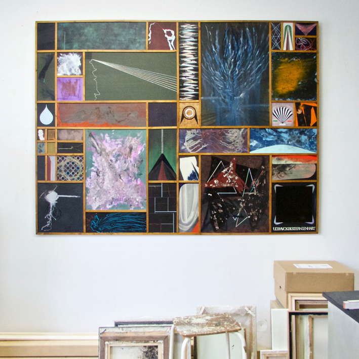 Ultravox by Stefan Lenhart, as seen on public display 2019.